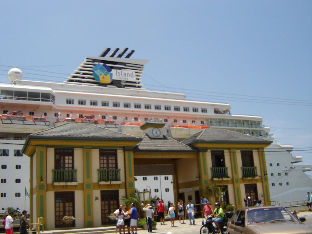 Photo originally taken by me, and I uploaded in flickr